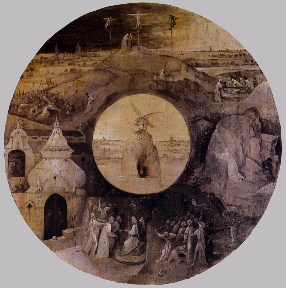 Note, this version cuts out the "darkness" surrounding the main circle. The darkness is full of figures and creatures that are key to understanding the painting.